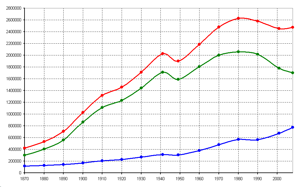 Population change of Budapest metropolitan area (1870-2008)